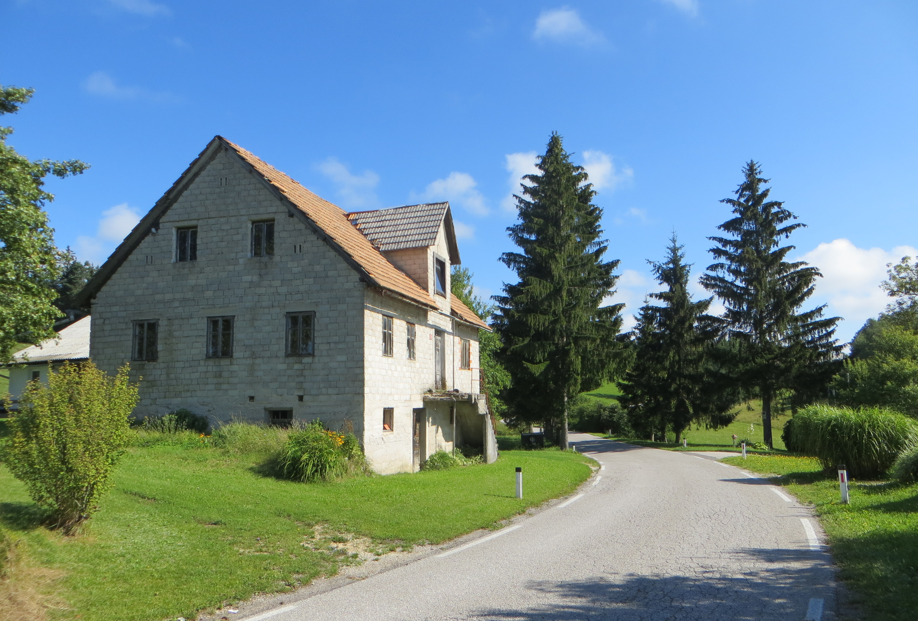 Zakraj, Municipality of Bloke, Slovenia